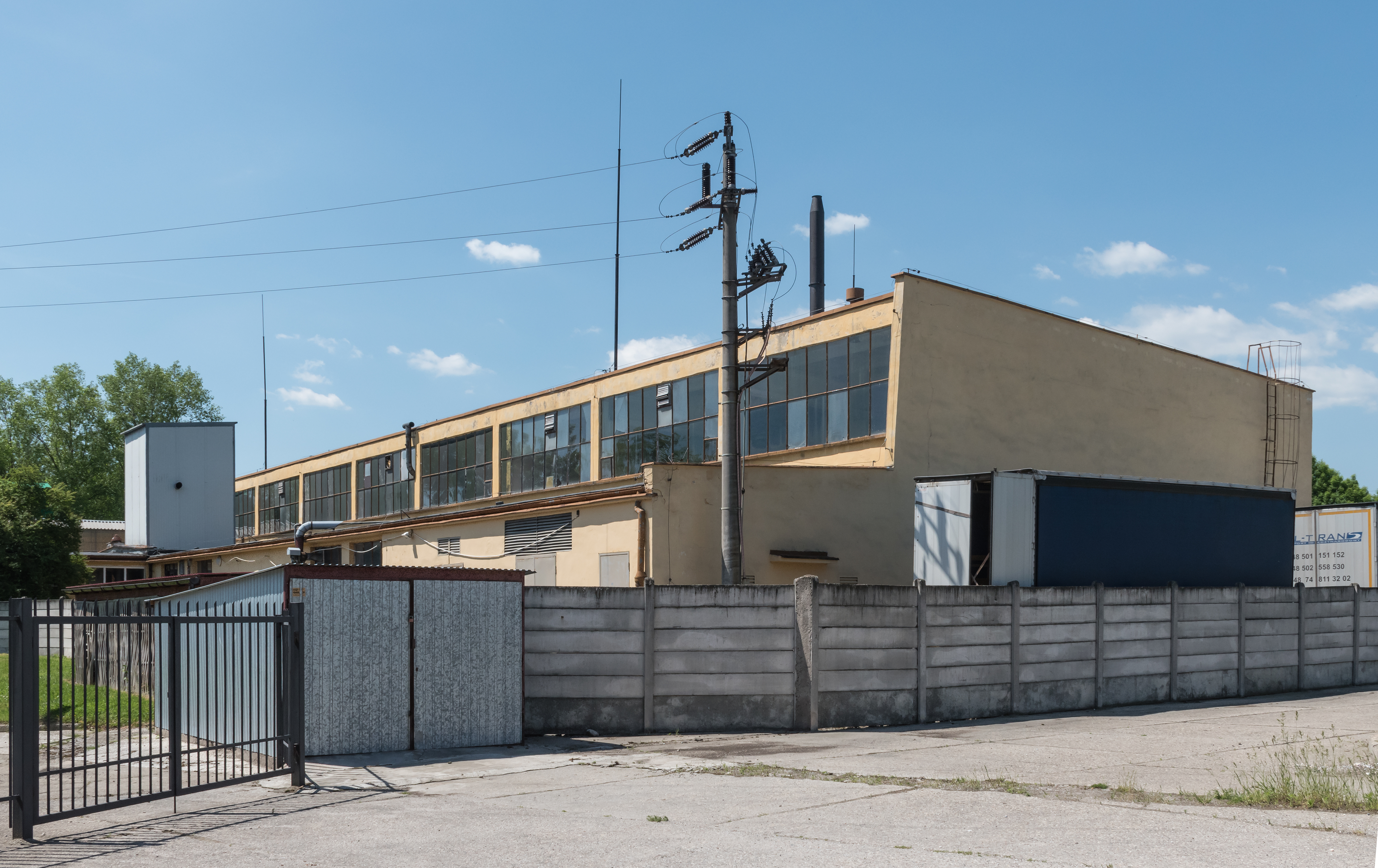 Former Bystrzyckie Plants of the Match Industry